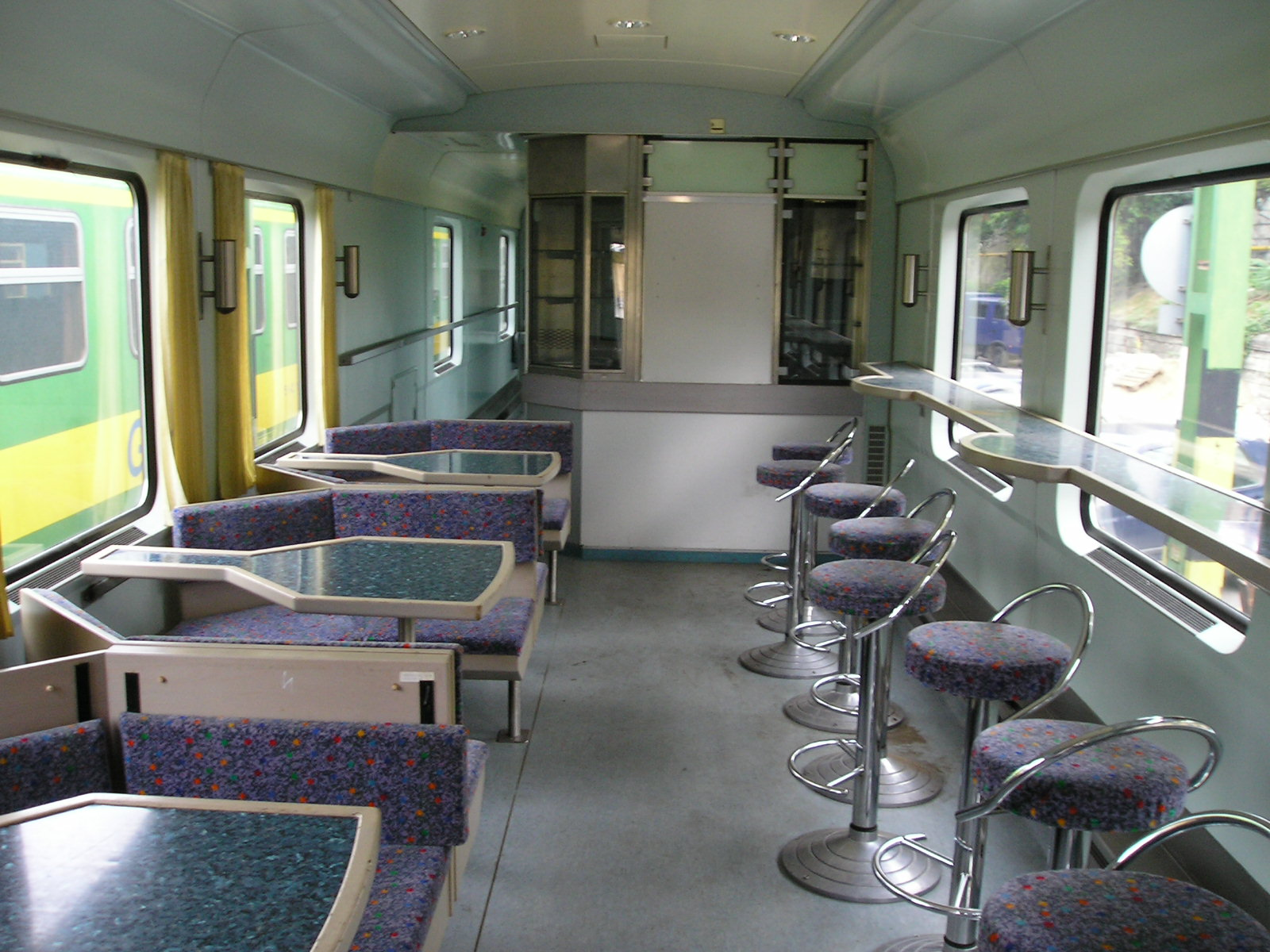 Bar section of a combined dining-bar coach of serie WRbumz 88-71 of MÁV (Hungarian State Railways)